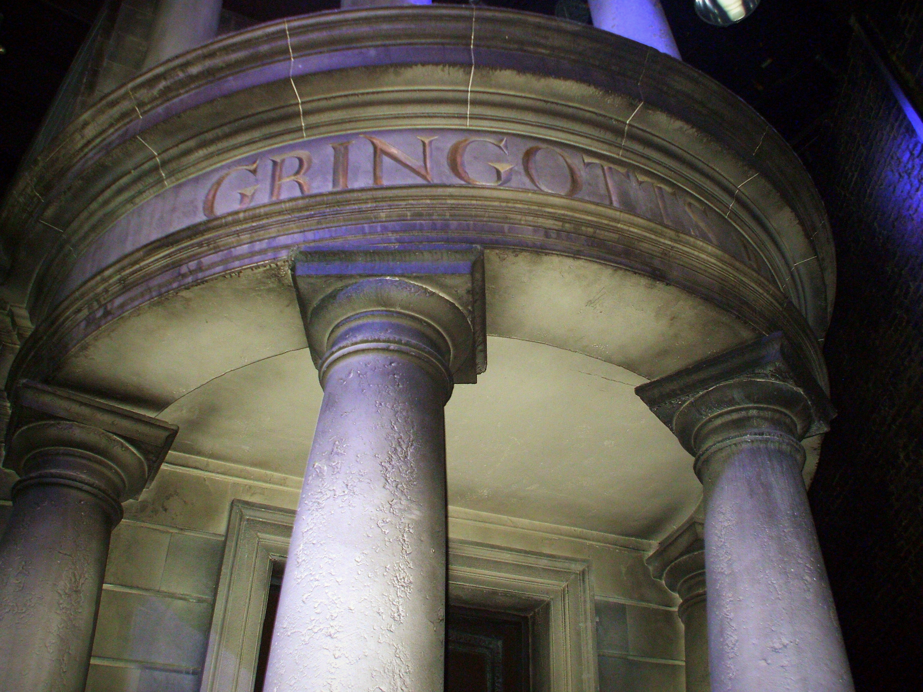 Gringotts Wizarding Bank, Diagon Alley, Harry Potter film set at Warner Bros. Studios, Leavesden, UK